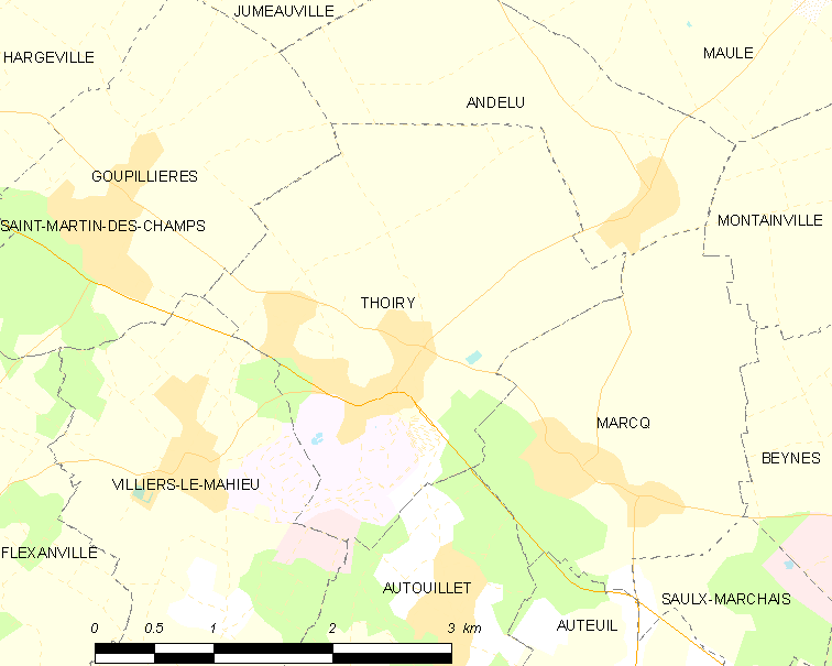 Map of French municipality Thoiry